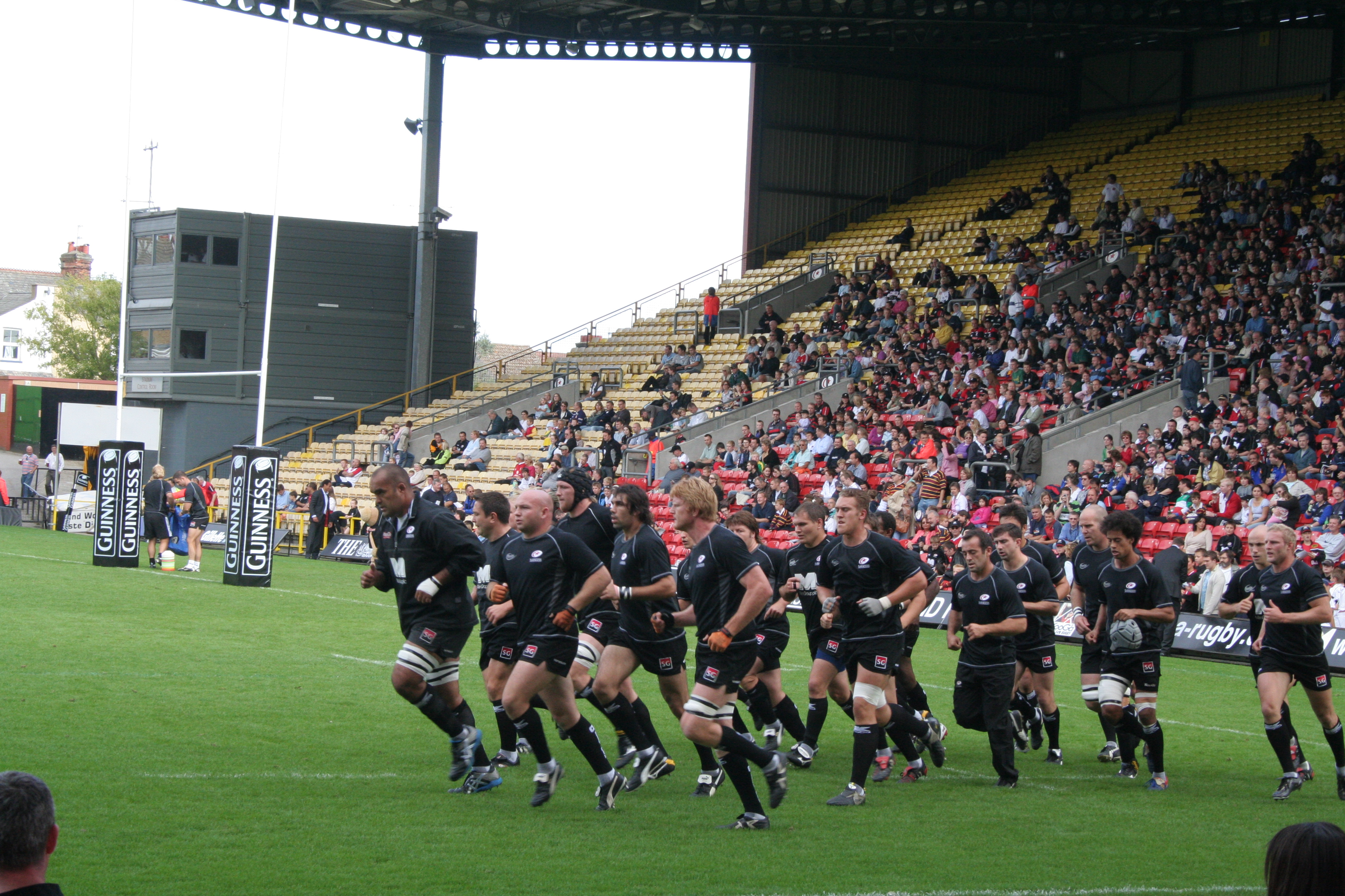 Picture of Saracens Rugby Football Club, taken at the Vicarage Road stadium in September 2005.